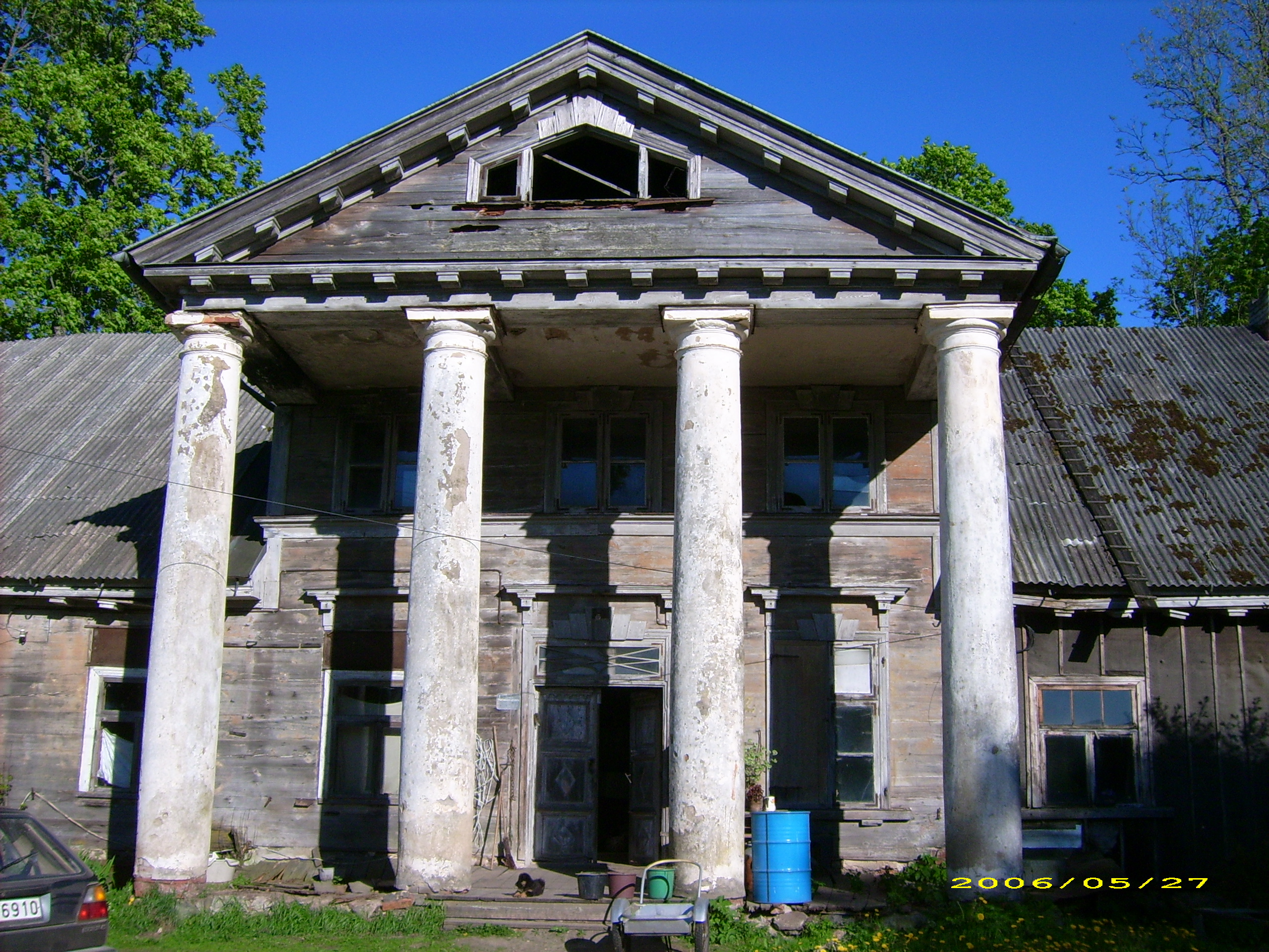 Allazi old manor house